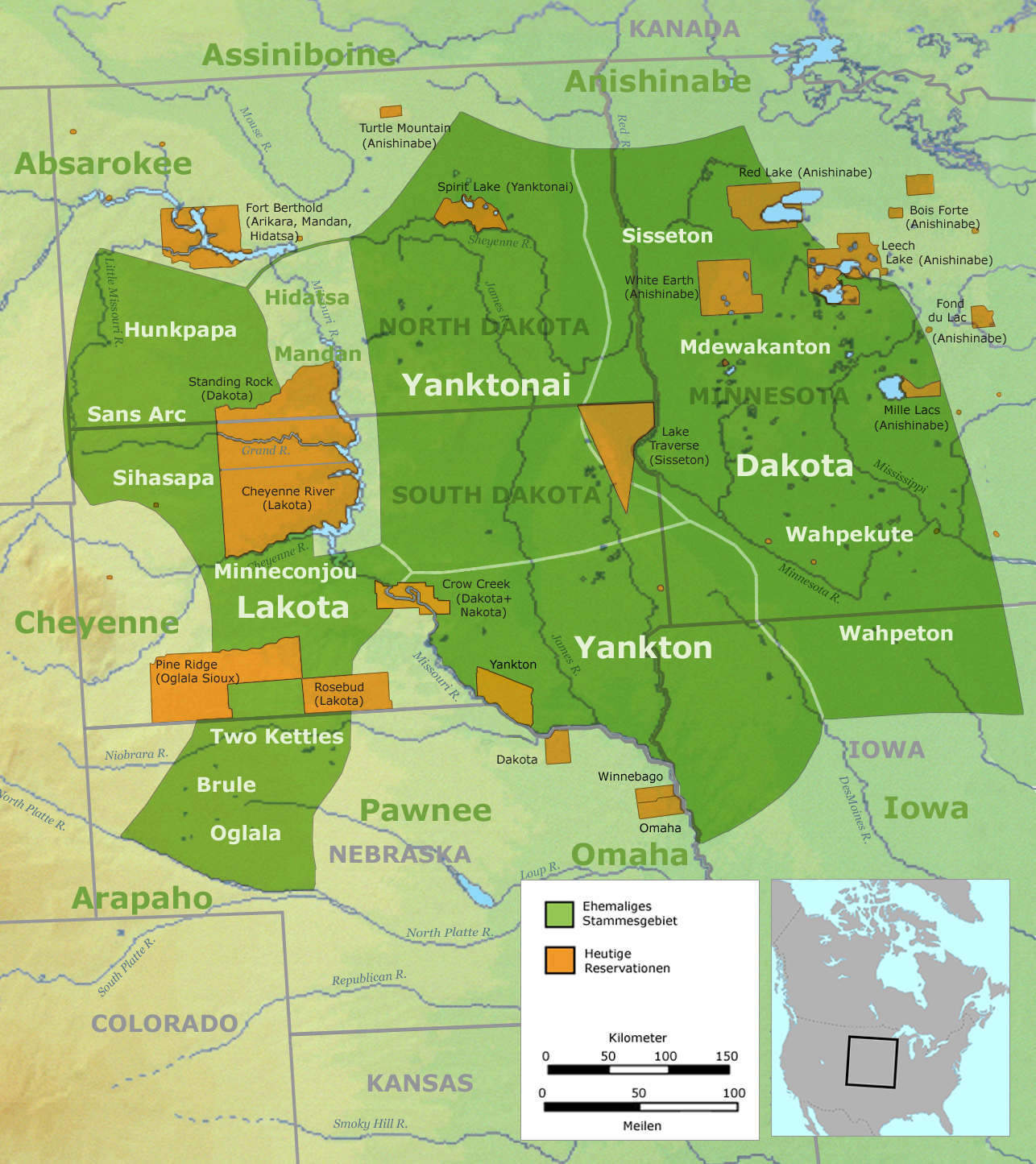 Tribal territory of the Great Sioux Nation. Legend: Green: former tribal area - yellow: todays's reservations